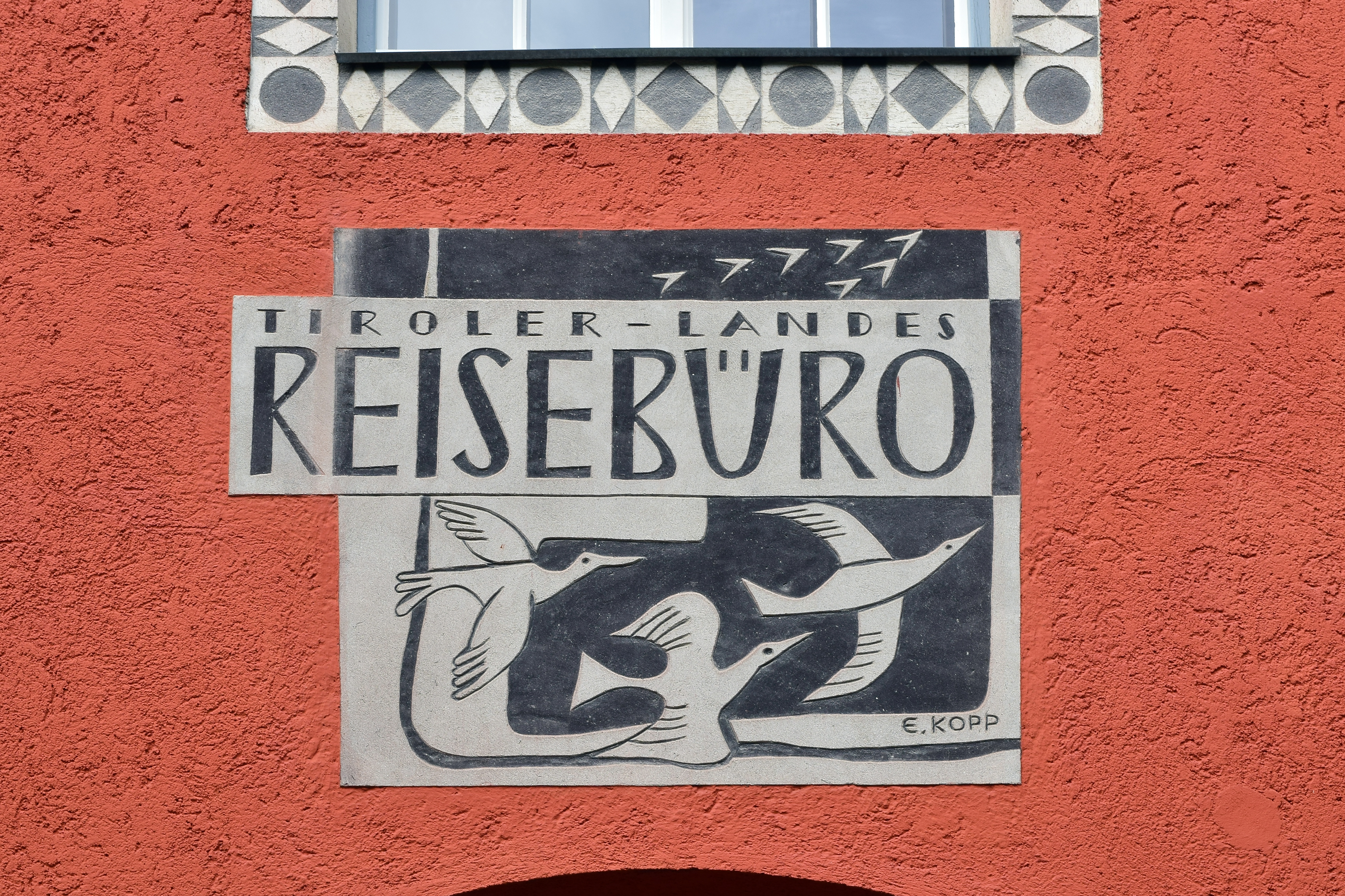 Sgaffito Travel agency at the travel agency in Imst